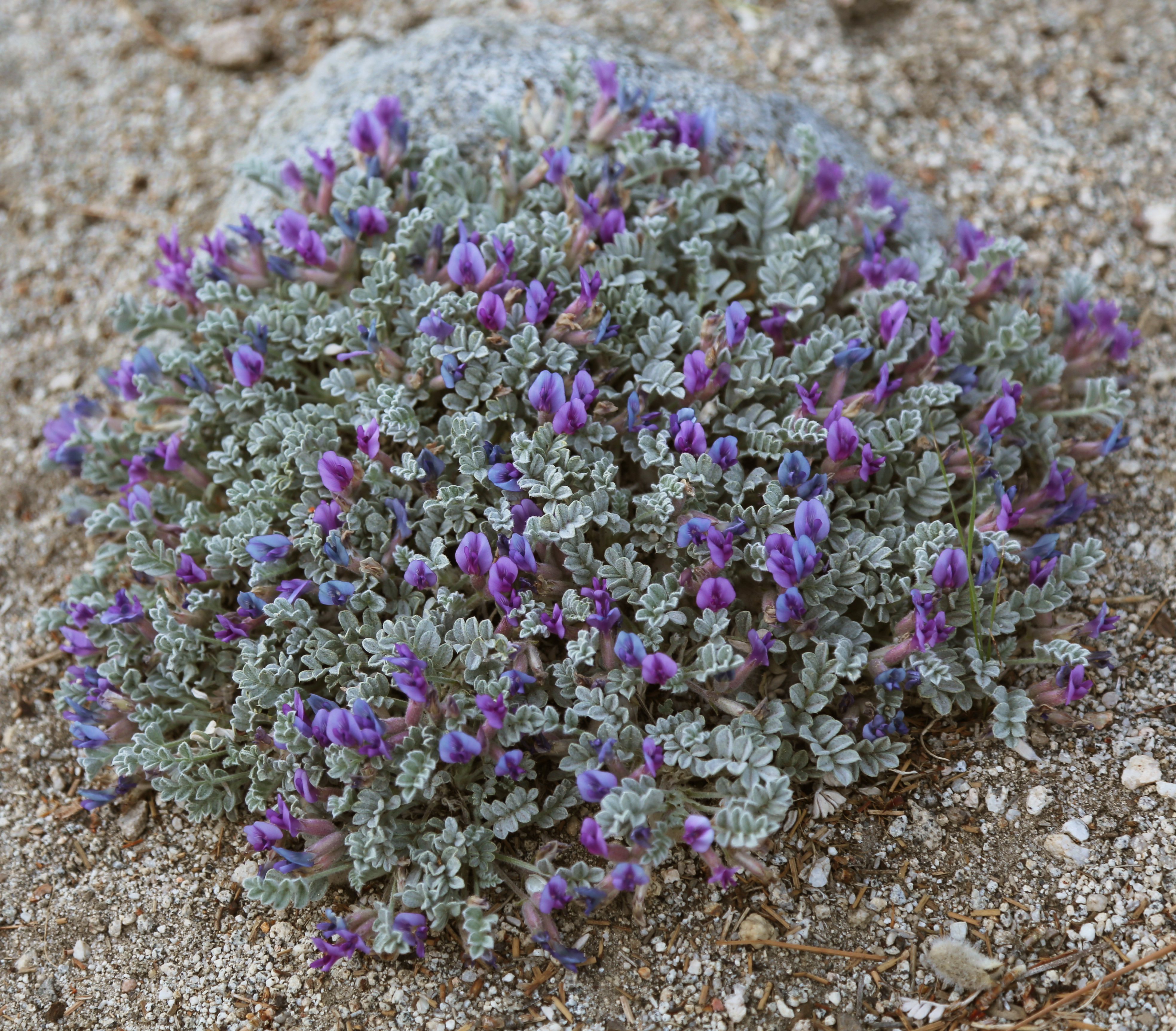 Pursh's milkvetch (Astragalus purshii) cushion-plant against rock. Along lower Rock Creek, Mono County CA.